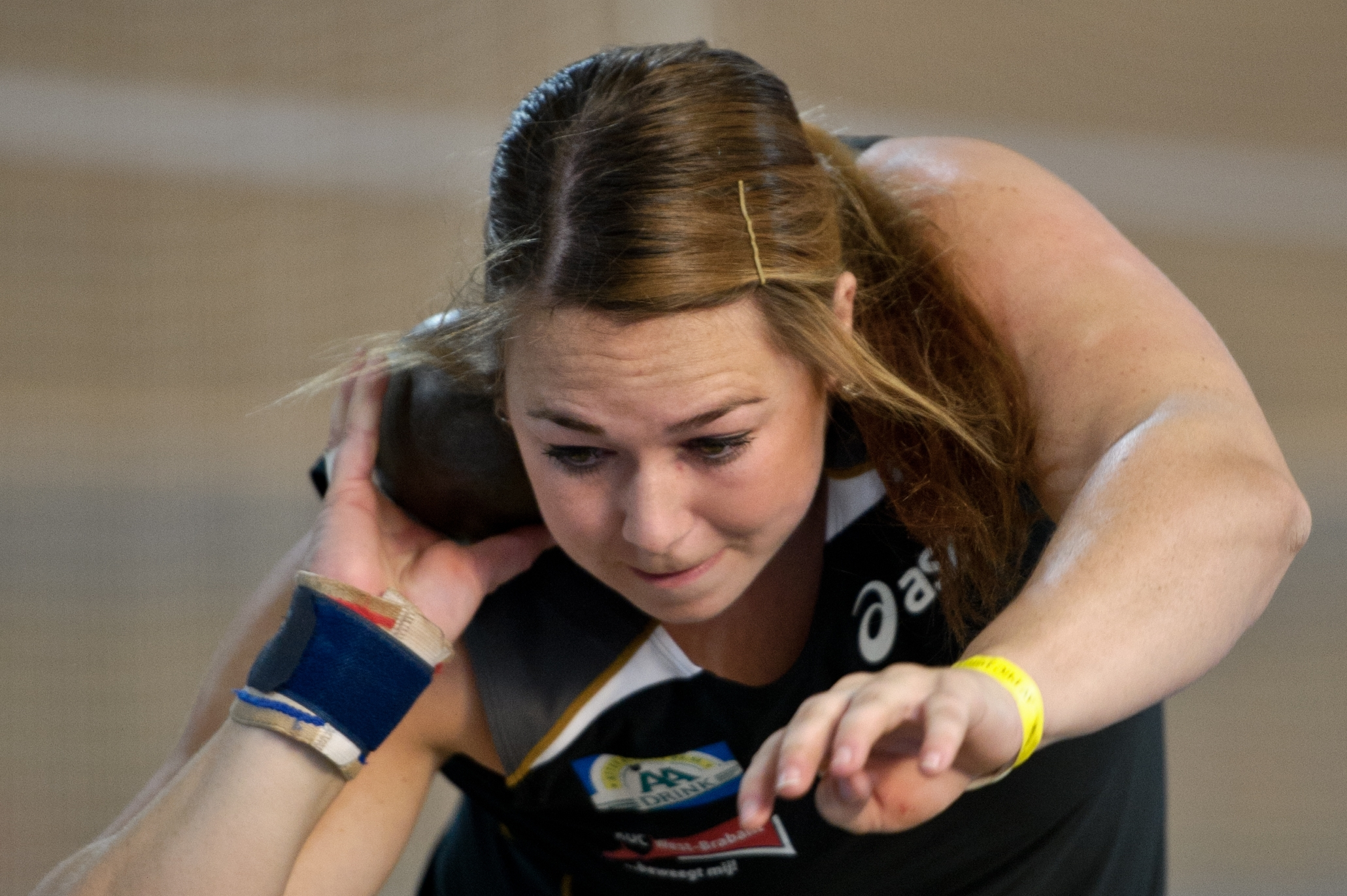 Melissa Boekelman in action during an indoor meeting in Apeldoorn, the Netherlands, Jan. 2011